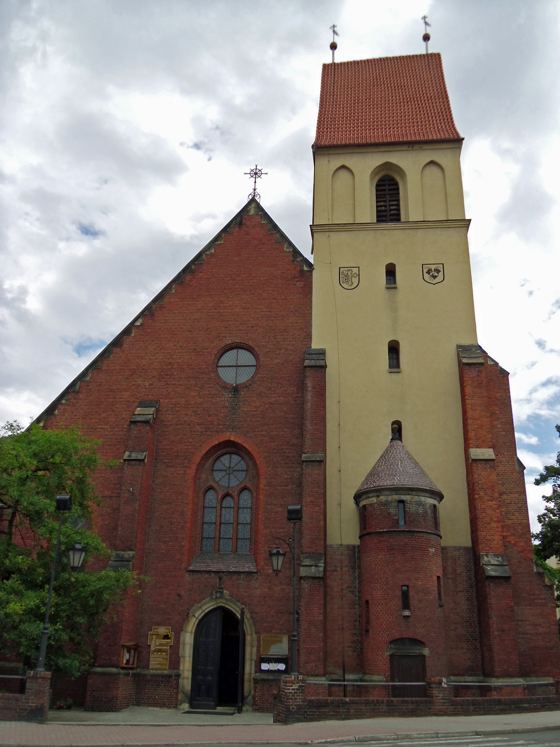 The Church of St. Sigismund and St. Hedwig in Kedzierzyn-Kozle